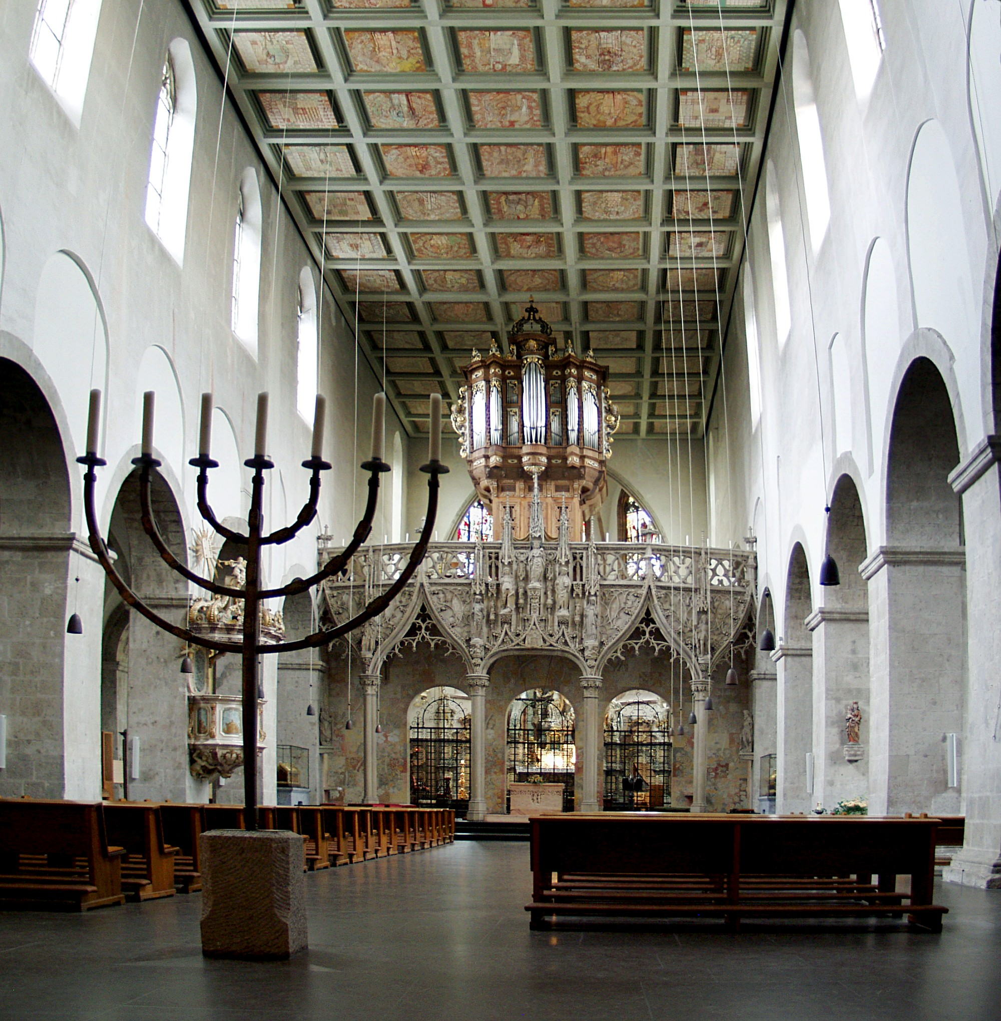 Inner view of the romaneque church St. Pantaleon, Cologne